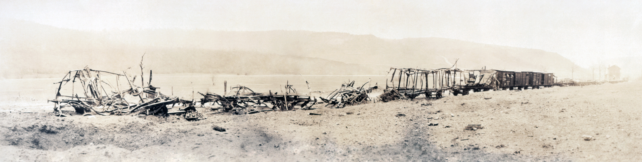 A wrecked German ammunition train, destroyed by shell fire, World War I